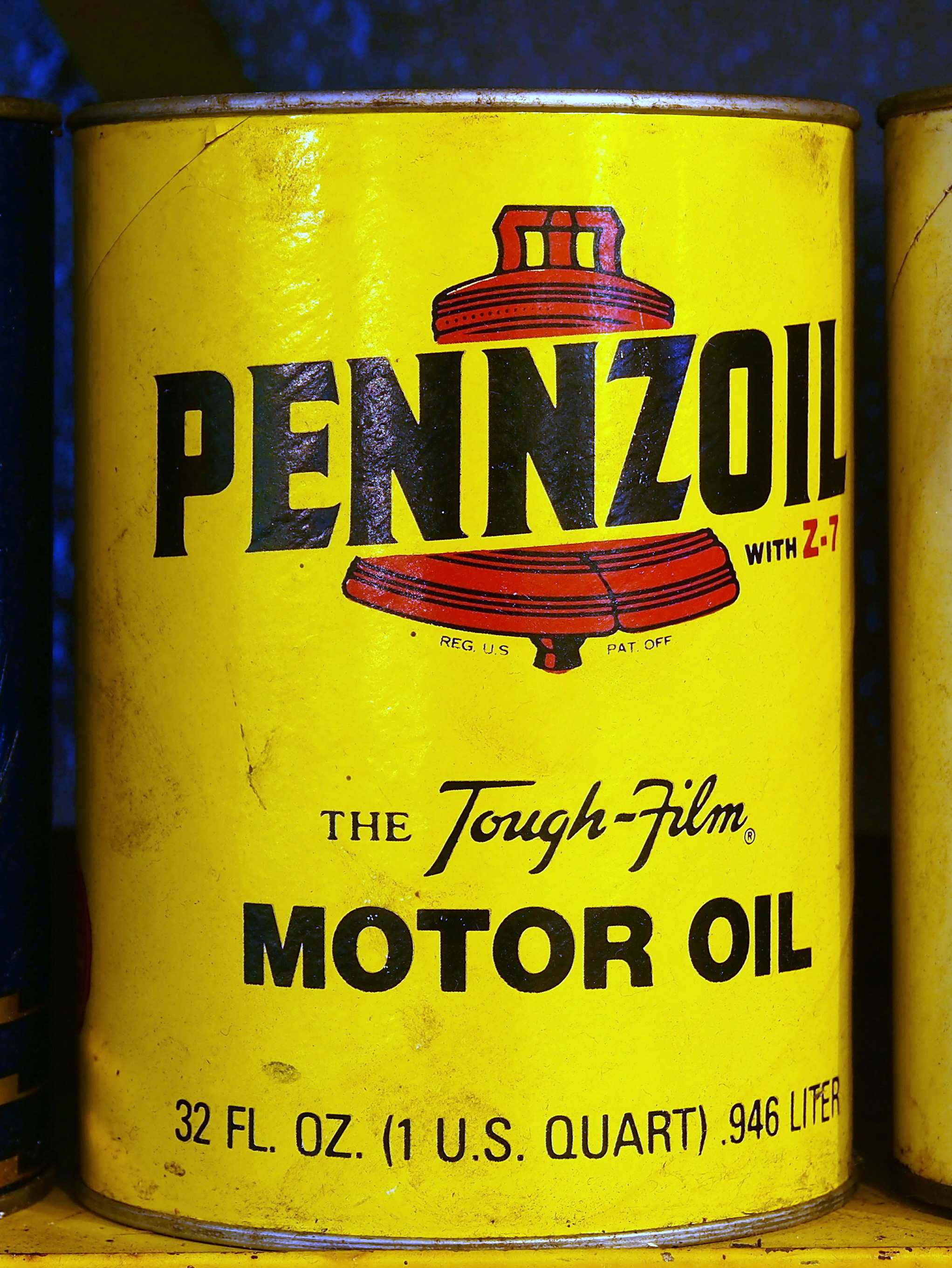 Old product photographed in the museum Terug in de Tijd, Horn, The Netherlands.